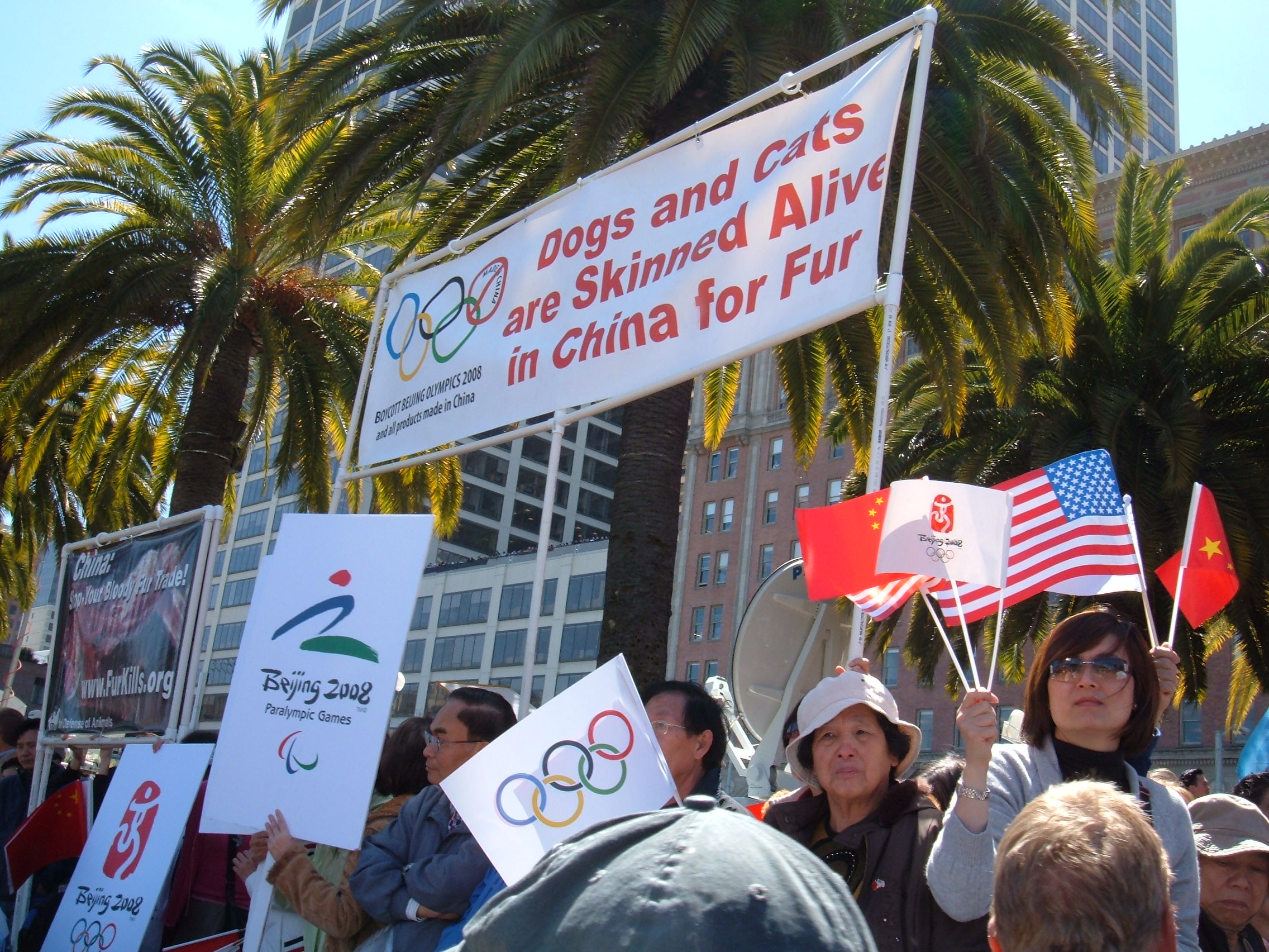 Protesters gathered along the southbound lanes of The Embarcadero during the relay. For an explanation and additional photos of my experience during the relay please see User:BrokenSphere/Gallery/San Francisco Bay Area/San Francisco/2008 Olympic Torch Relay.